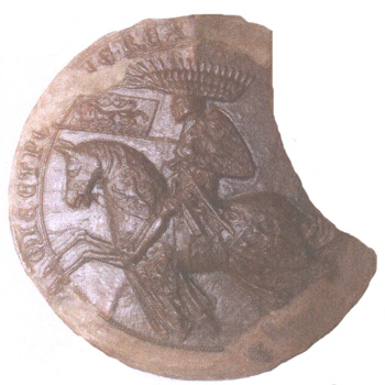 Seal of Wenceslaus III of Poland and Bohemia